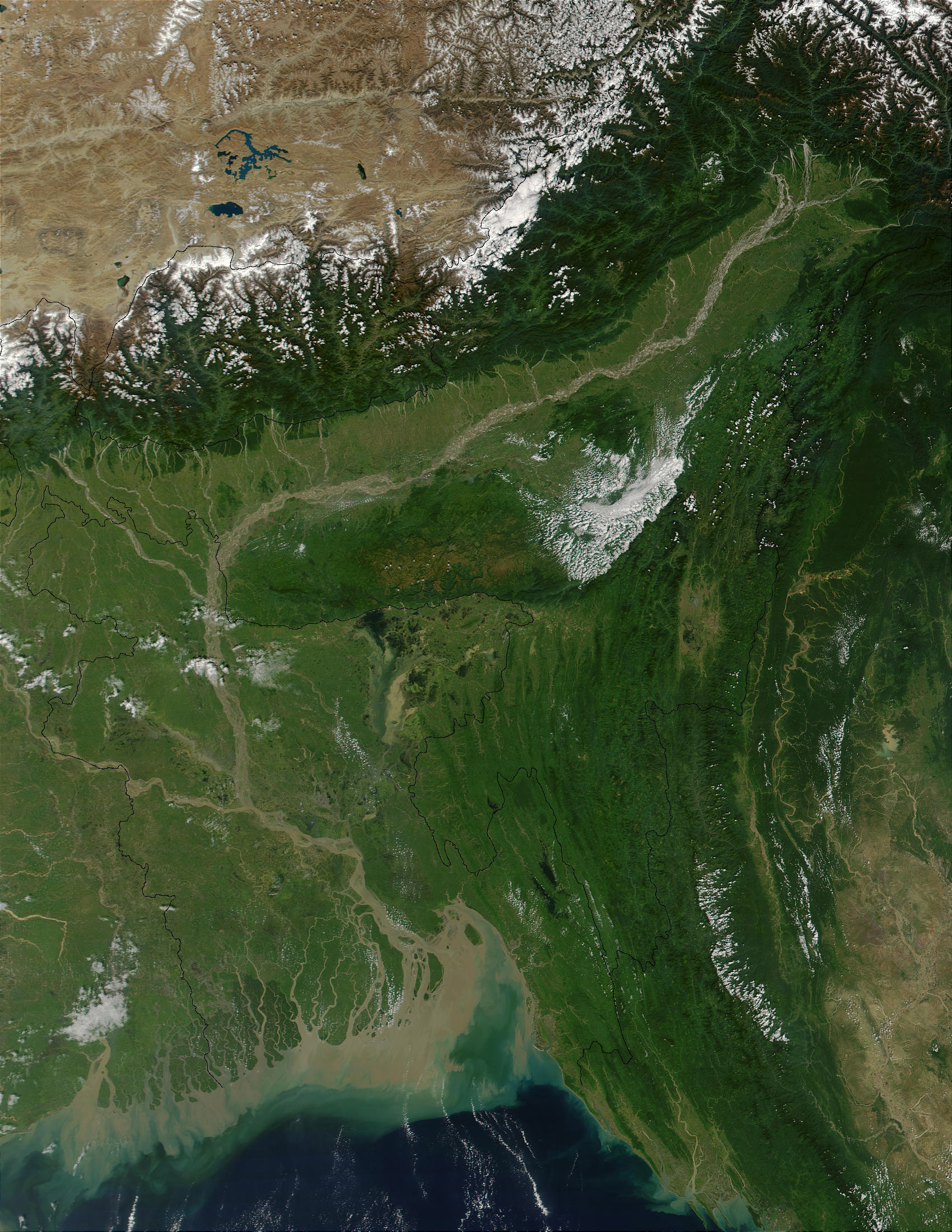 In this true-color MODIS image from October 23, 2001, the semi-arid Tibetan Plateau (upper left) meets up with the Himalayas to the south. From the heights of the Himalayas, snow-covered on their northern flanks, and lush with vegetation to the south, numerous rivers, brown with churned up sediment, flow into the valley of the Brahmaputra River in Assam, India. The Brahmaputra turns southward at the border of Bangladesh and is soon joined by the Ganges River, flowing in from image left. The mighty river splits into numerous channels as it runs out toward the Bay of Bengal, giving the region the name "Mouths of the Ganges." Vast amounts of sediment are being emptied into the Bay by the river, and greenish blue swirls could be a mixture of sediment and phytoplankton.